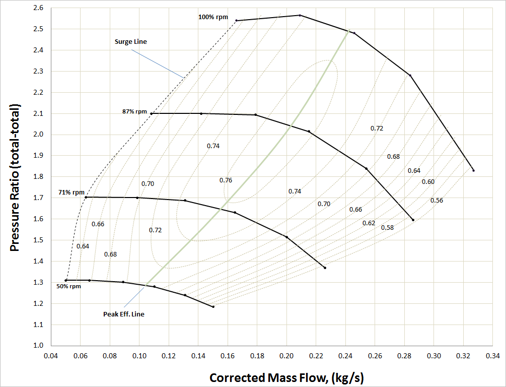 centrifugal performance map, w/efficiency islands, w/peak efficiency line